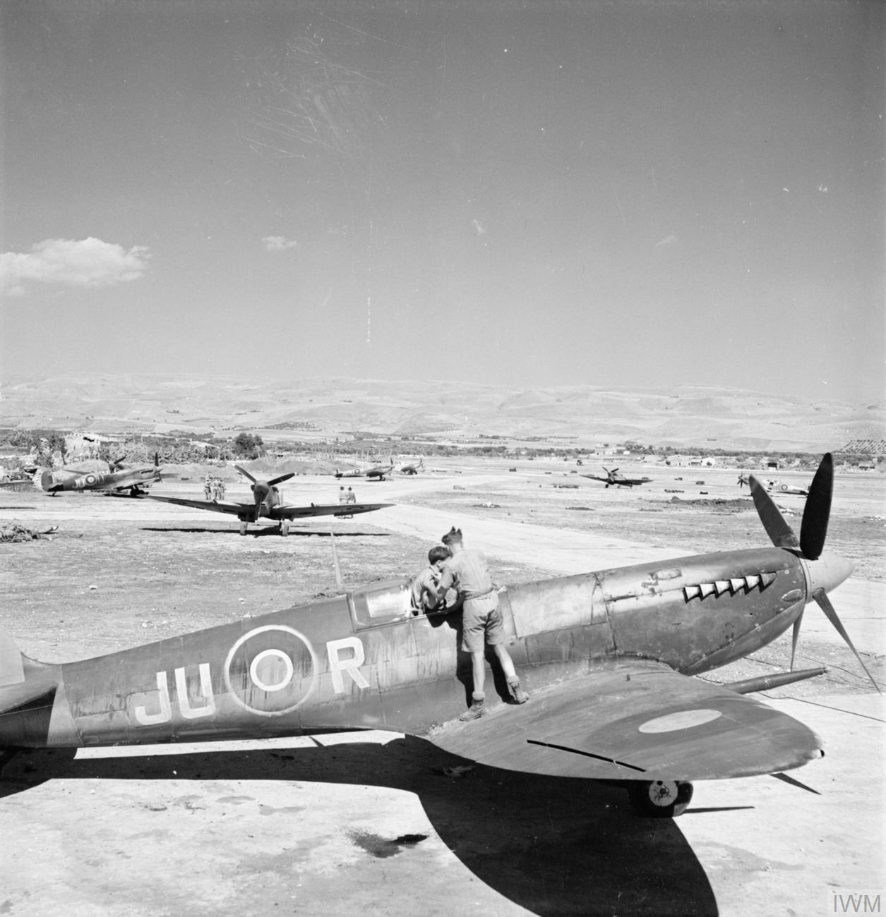 Royal Air Force- Italy, the Balkans and South-east Europe, 1942-1945. Supermarine Spitfires of No. 111 Squadron RAF undergoing maintenance at Comiso, Sicily. 'JU-R' in the foreground is a Mark IXE, the other aircraft being Mark VCs.